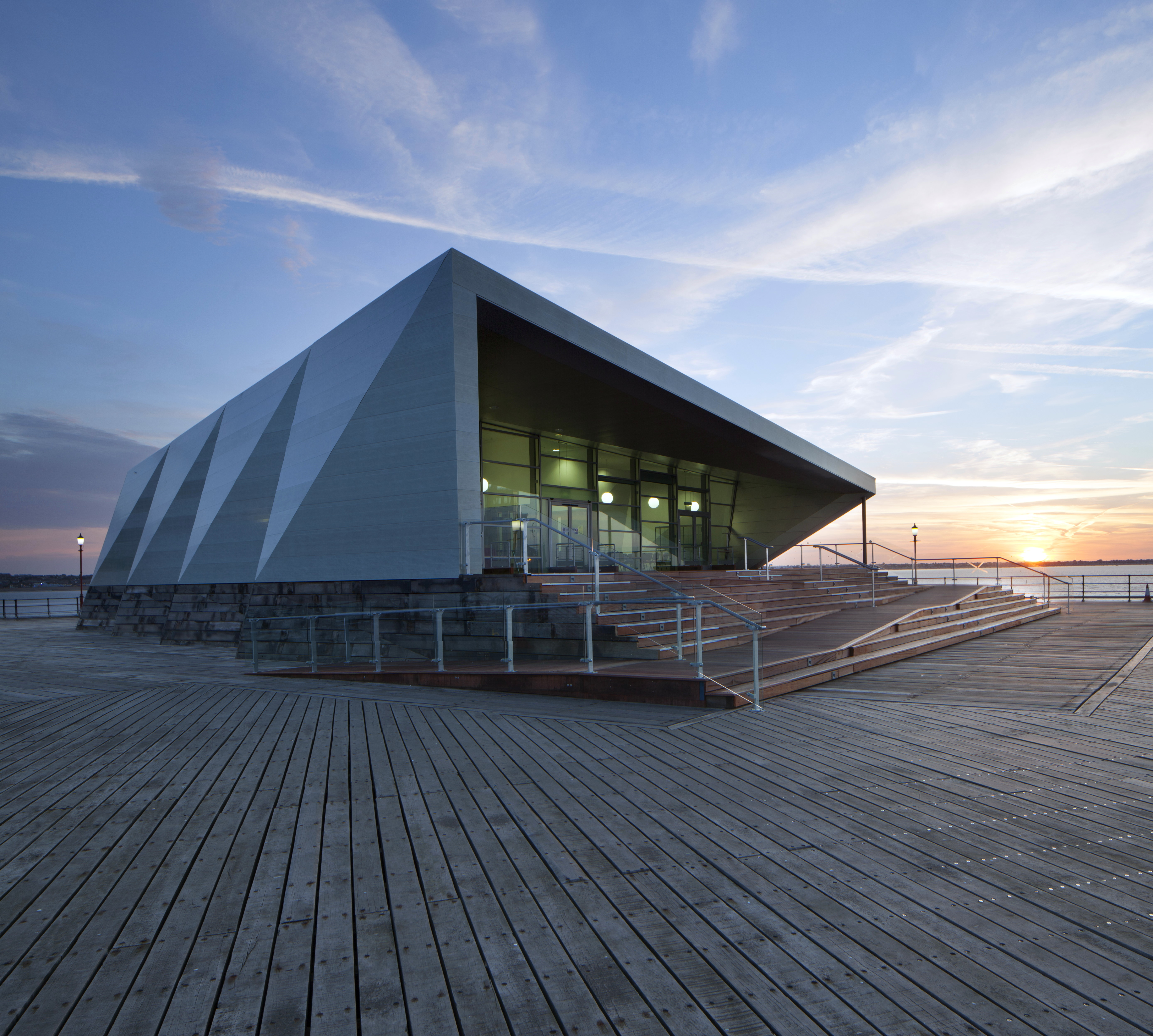 Southend Pier Cultural Centre showing the side elevation at Sunset